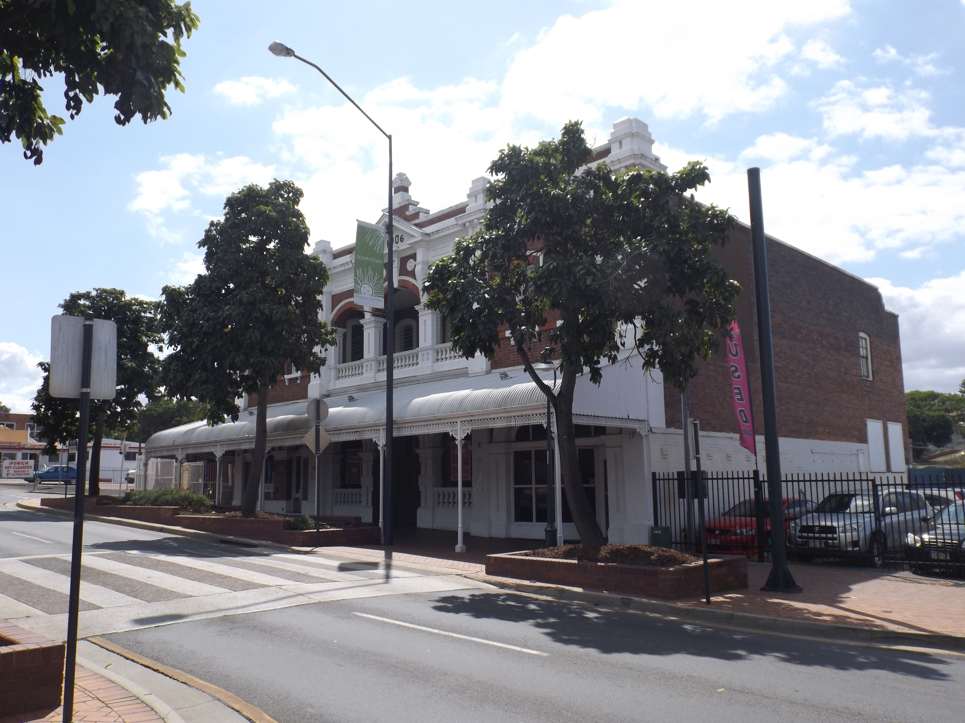 Photo of Hotel Metropole, West Ipswich, Queensland, Australia